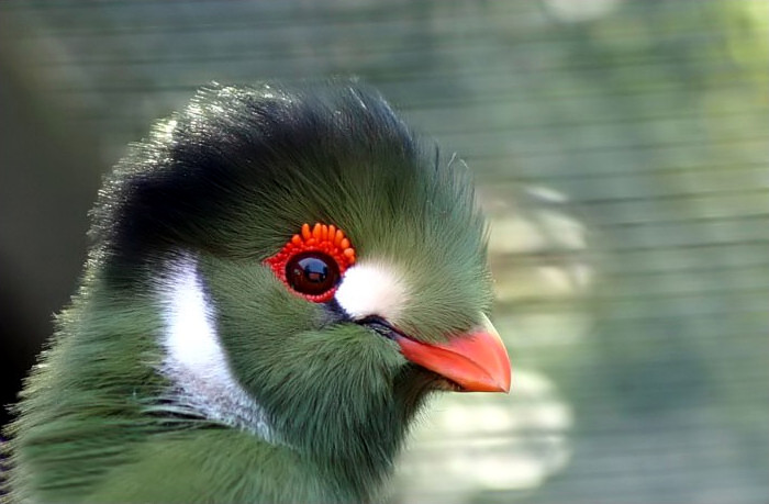 Weißohr-Turako (Tauraco leucotis)